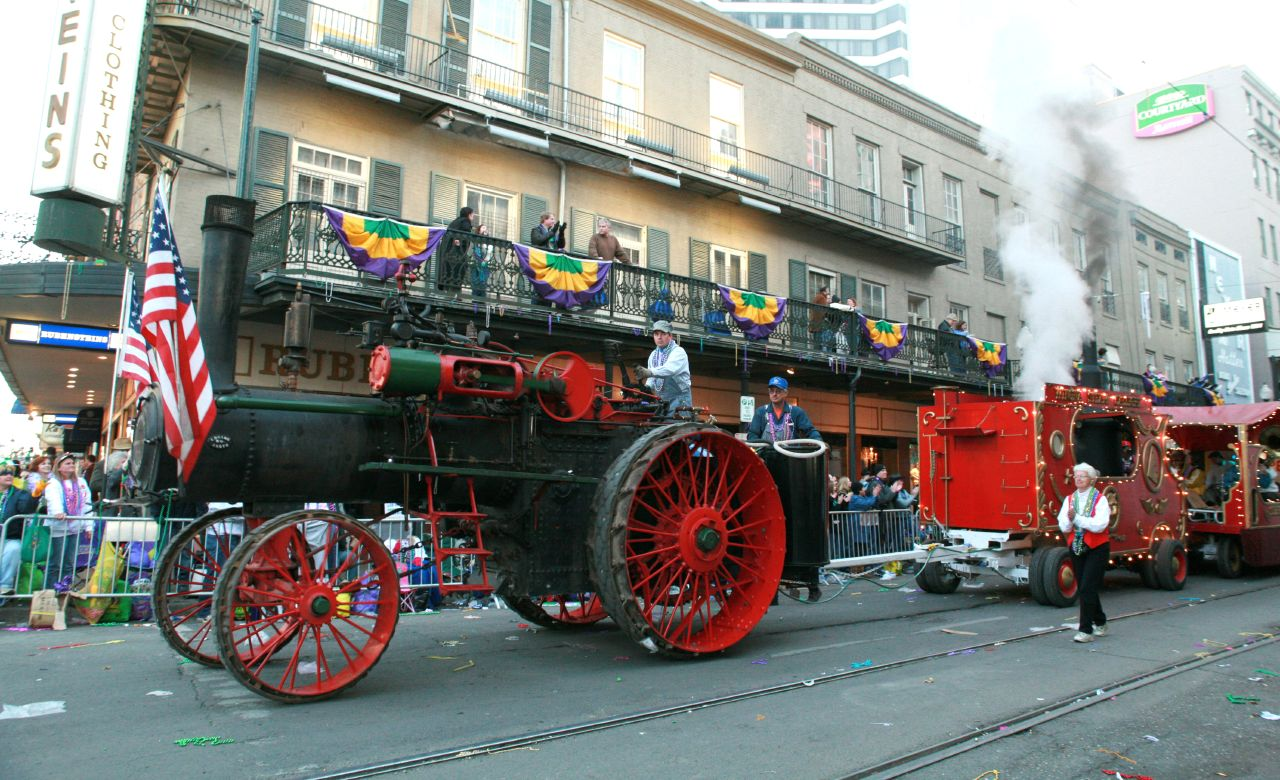 New Orleans Mardi Gras 2007: Steam road engine pulling steam calliope on St. Charles Avenue at Canal Street for one of the daytime parades the Sunday before Mardi Gras.